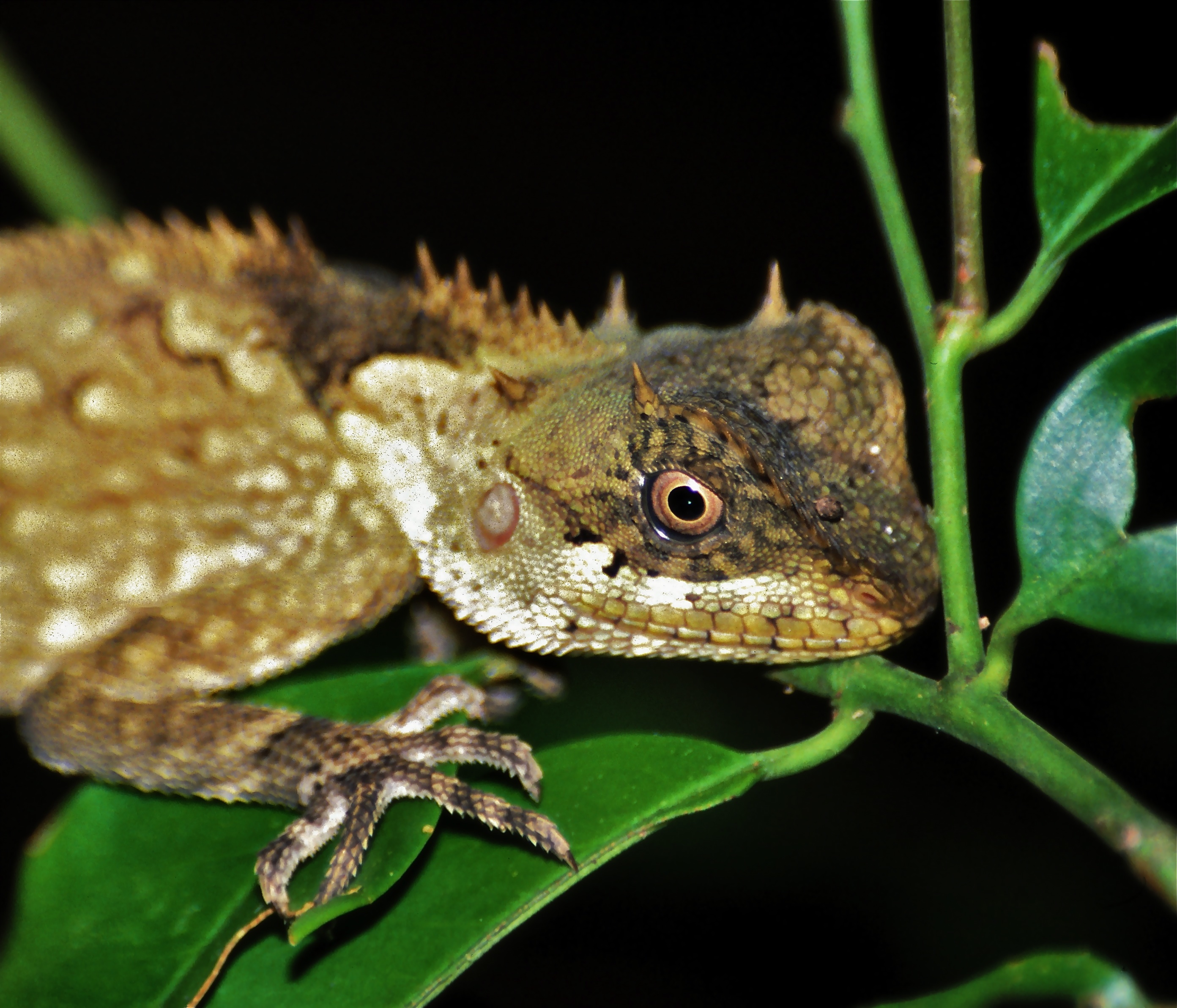 Khao Yai NP, THAILAND Scanned Slide from 2003